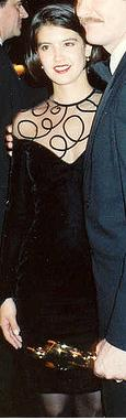 Oscar-winner Kevin Kline and his wife Phoebe Cates at the Governor's Ball party after the 1989 Academy Awards, March 29, 1989 - Permission granted to copy, publish, broadcast or post but please credit "photo by Alan Light" if you can